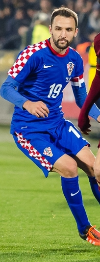 Milan Badelj